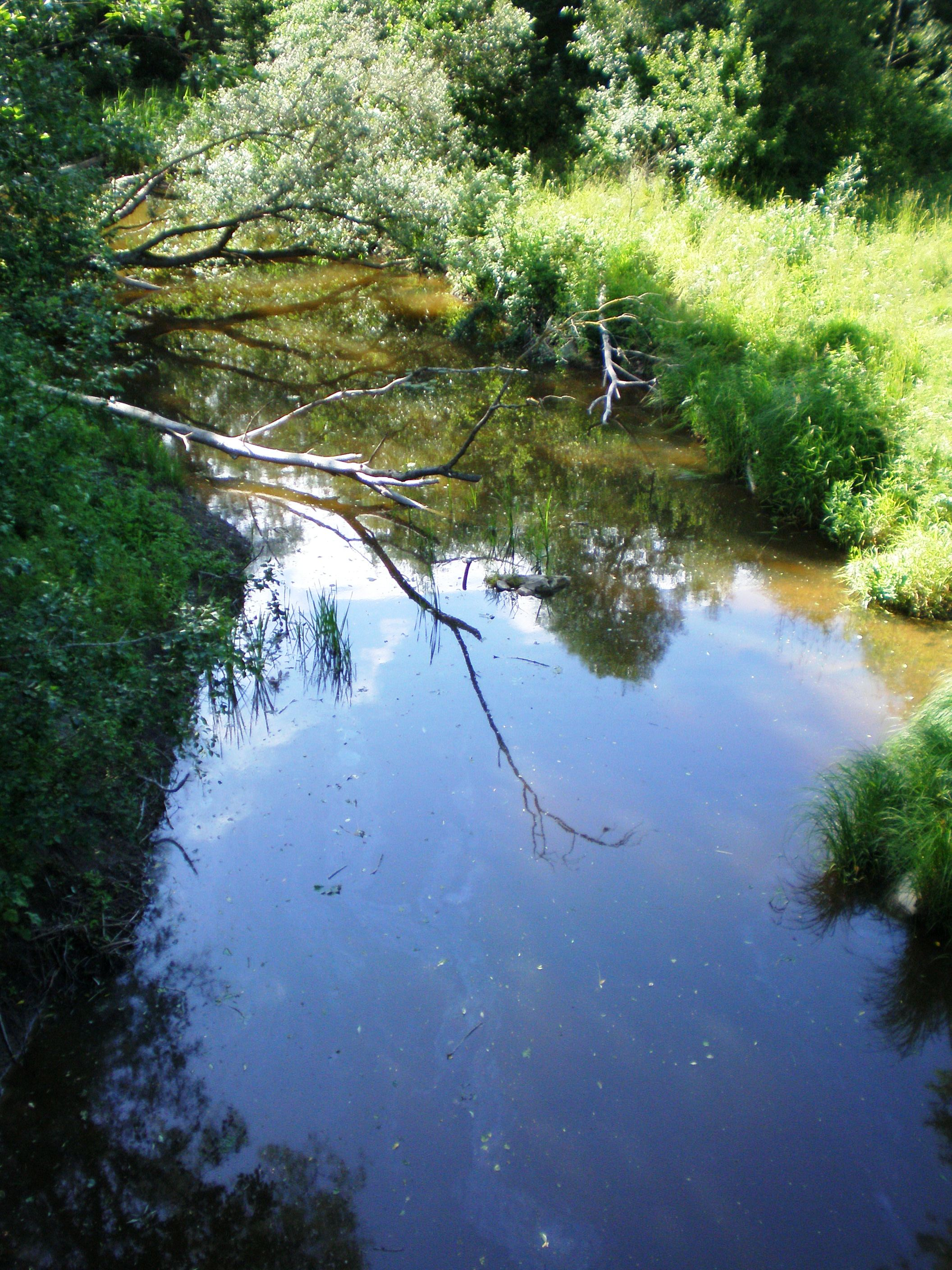 River Smilga